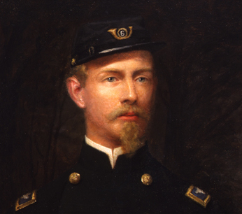 Nicholas Longworth Anderson, who served in the Civil War as a colonel in the Sixth Ohio Volunteer Infantry, nicknamed the Guthrie Grays; by an unknown artist, mid-late 19th century. Larz and Isabel Anderson Gallery, Gift of Isabel Anderson